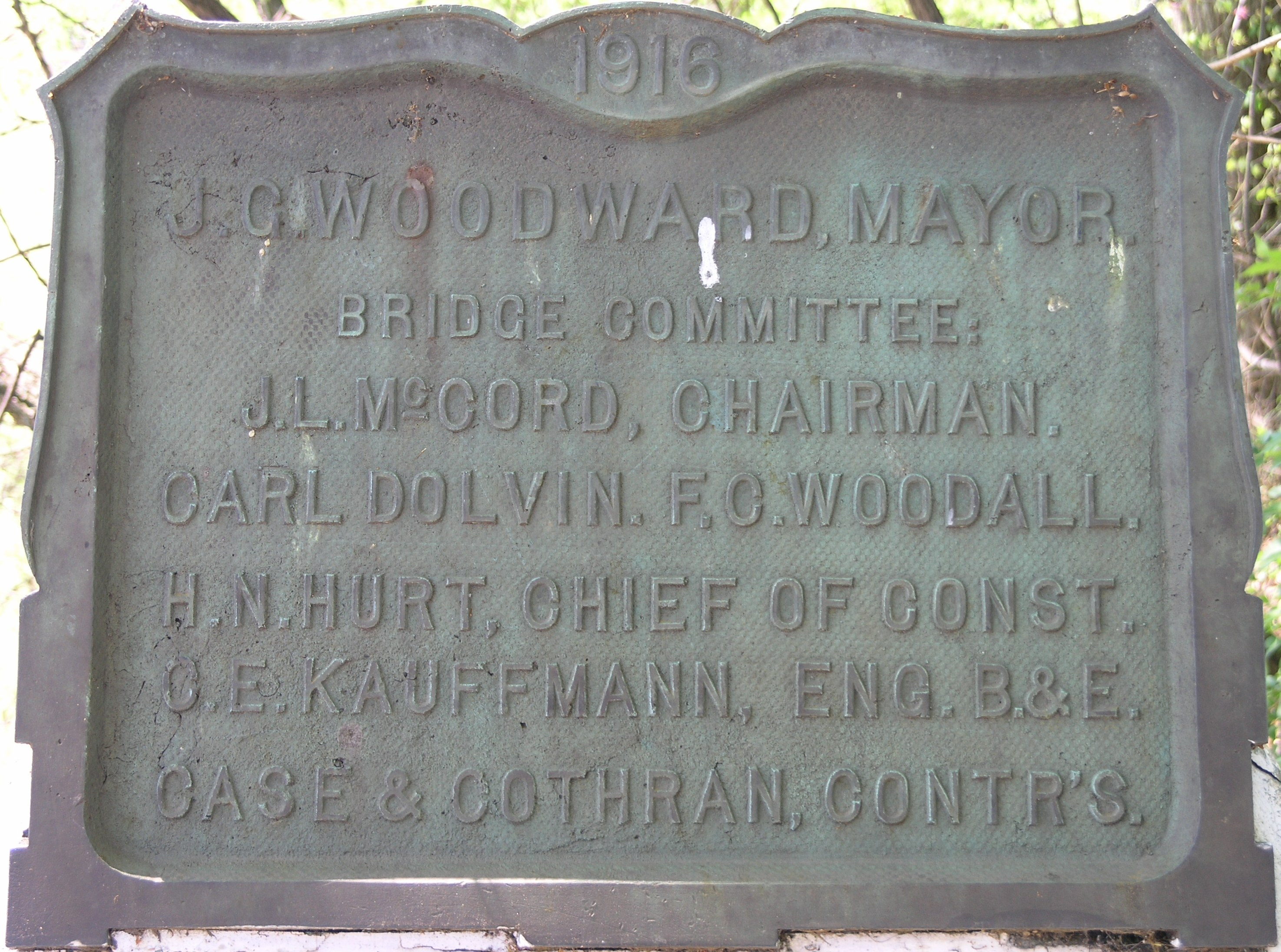 Photo taken in Atlanta area of plaque from 1916 mentioning Atlanta mayor J. G. Woodward and listing members of a local bridge committee.